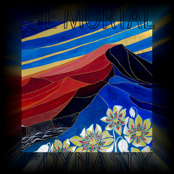 Adeyto I*Dynasty The Mortal DVD (2006) artwork by Adeyto